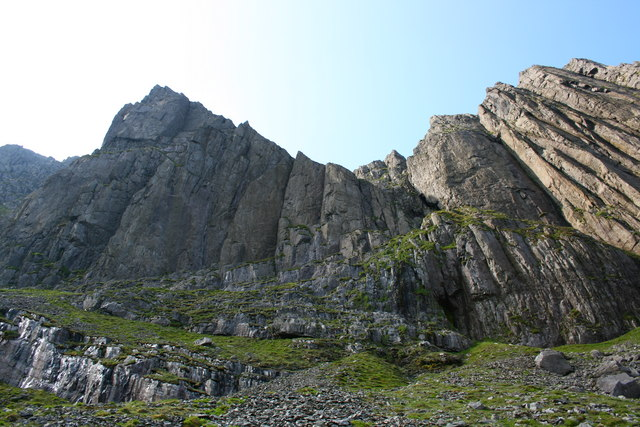 Clogwyn Du'r Arddu The steep cliffs of Clogwyn Du'r Arddu are highly regarded by rock climbers.Limestone is sandwiched with volcanic rocks in these cliffs and consequently there is a wider range of flowers here.